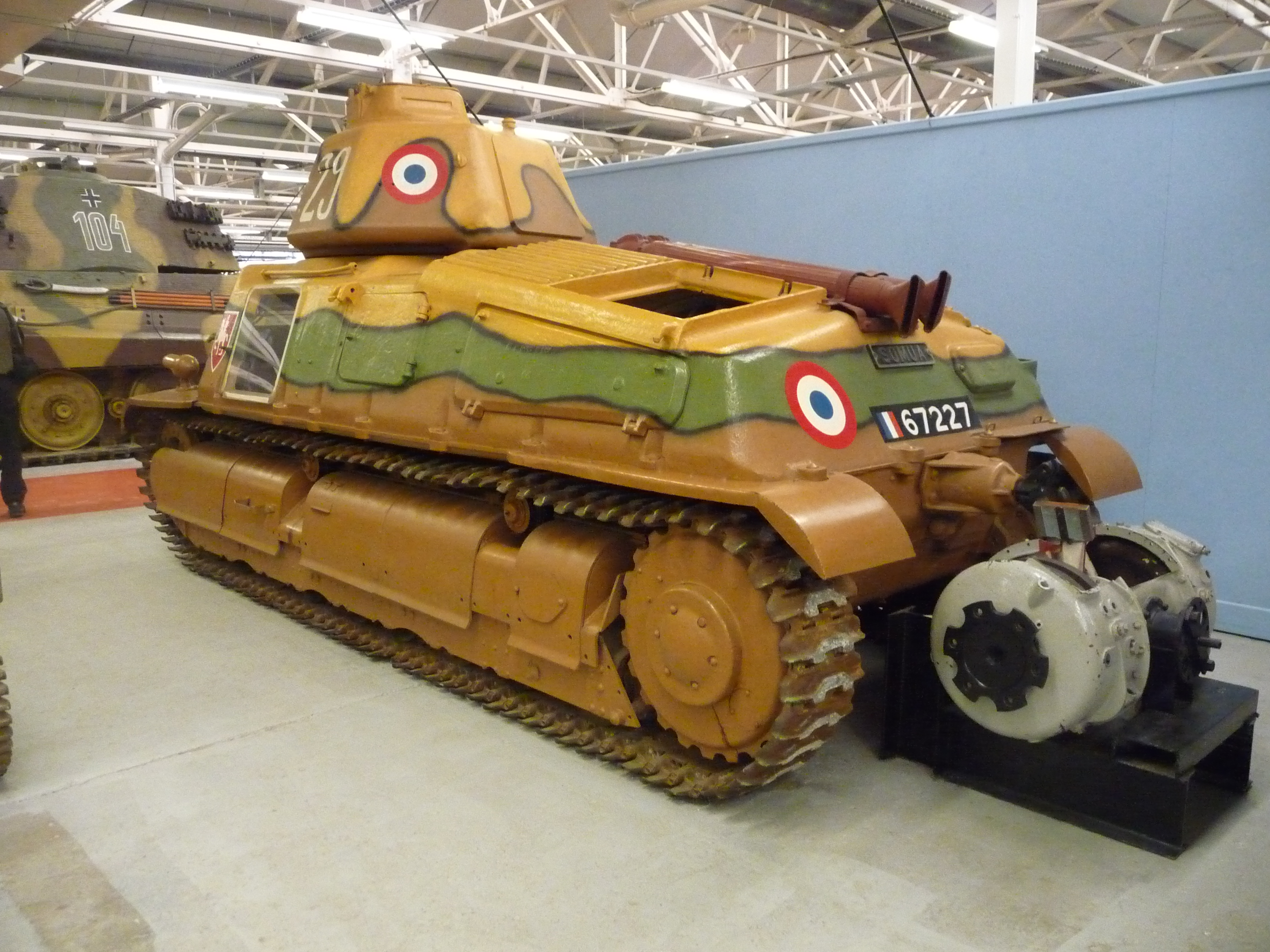 Char, SOMUA S 35